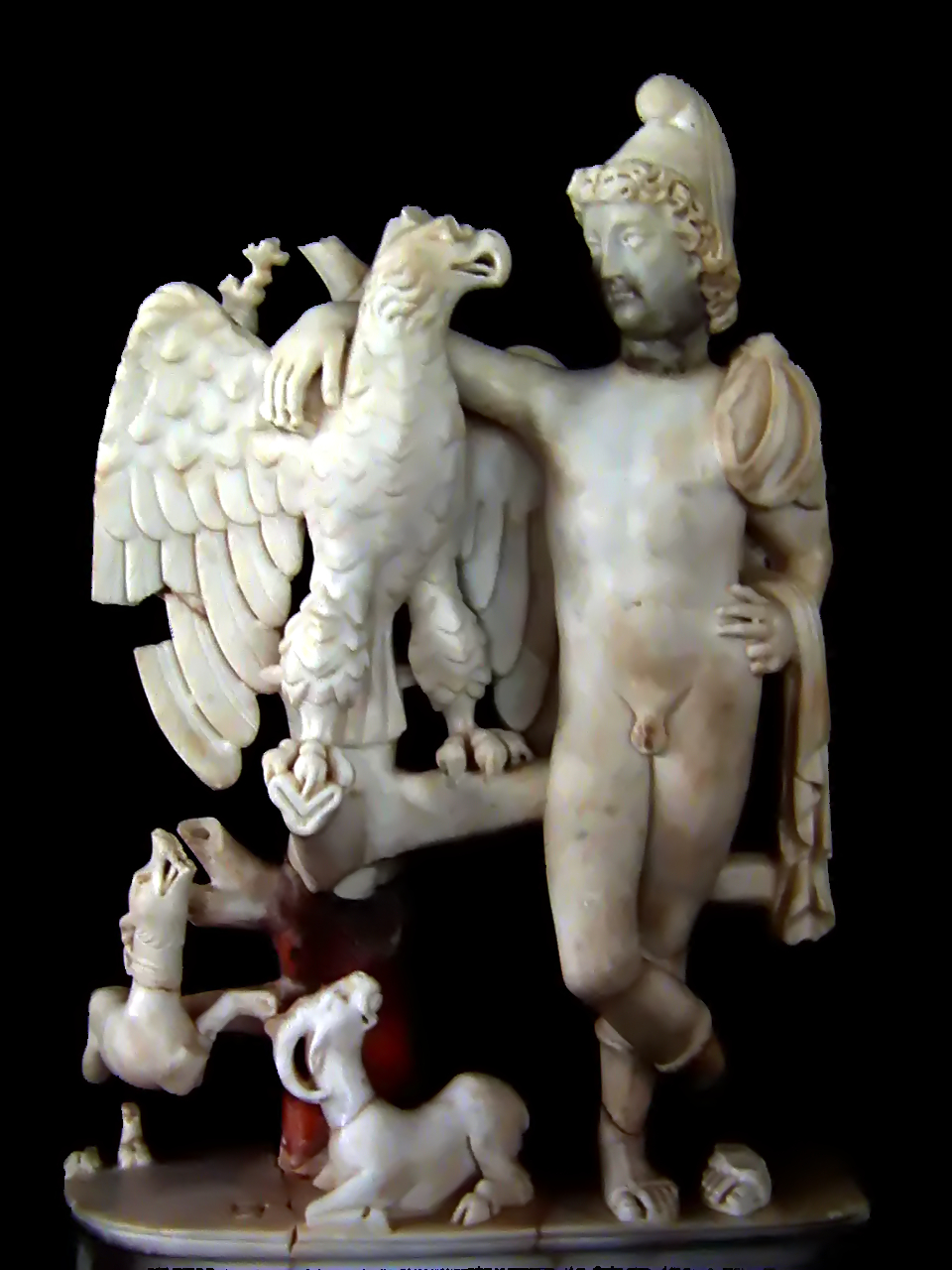 Ganymede statuette, exposed at the Carthage Paleo-Christian Museum